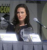 Jennifer Connelly during a press conference at ComicCon 2009